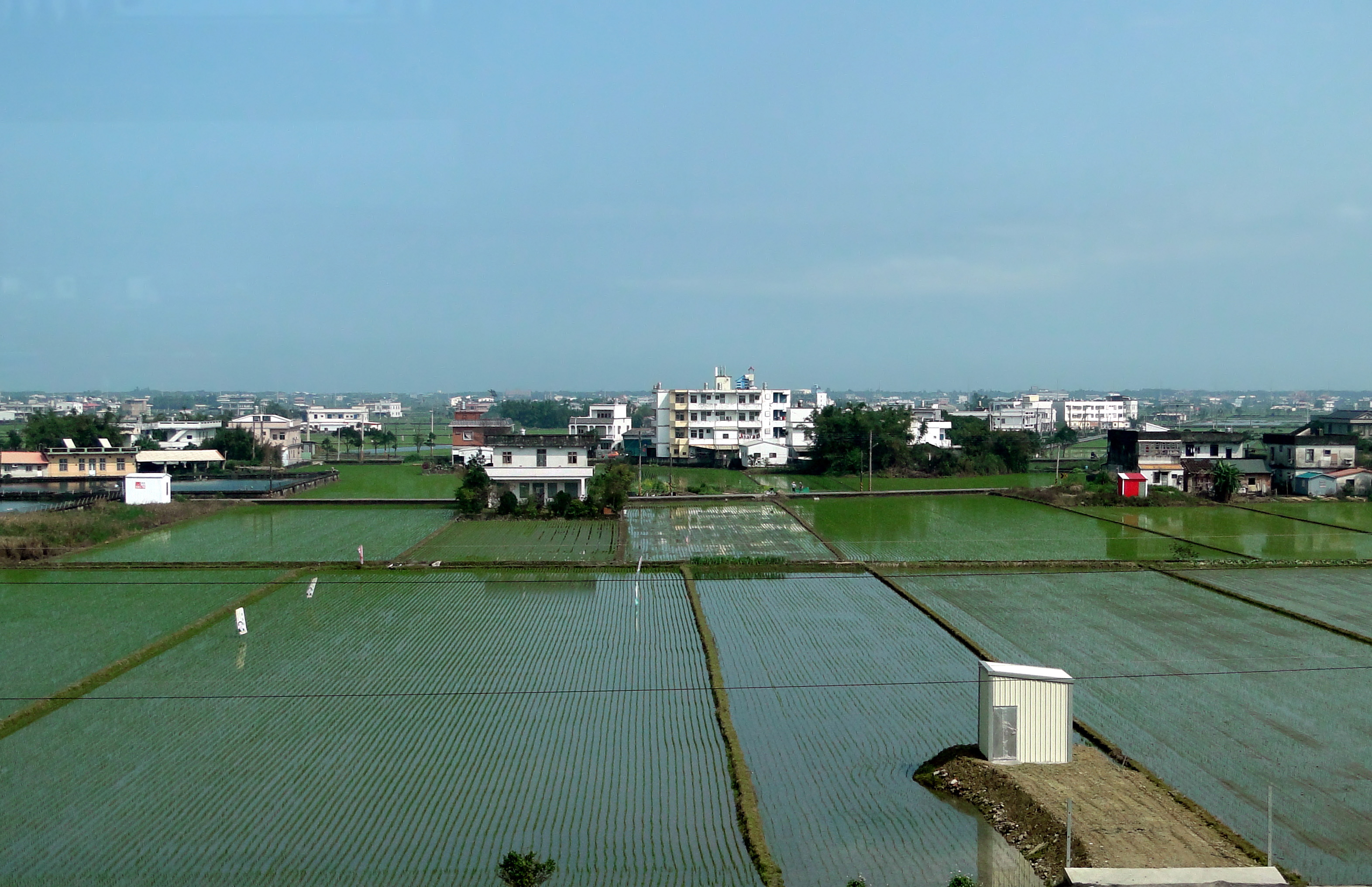 Paddy field in Yilan County, Taiwan